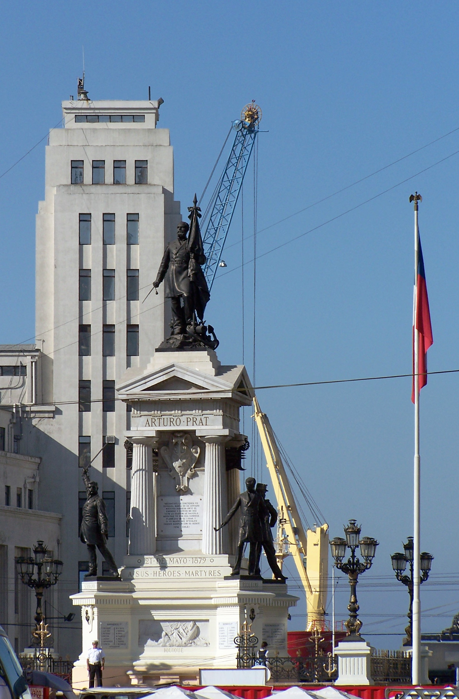 Monument to the heroes of Iquique (and cript), at Plaza Sotomayor, Valparaíso